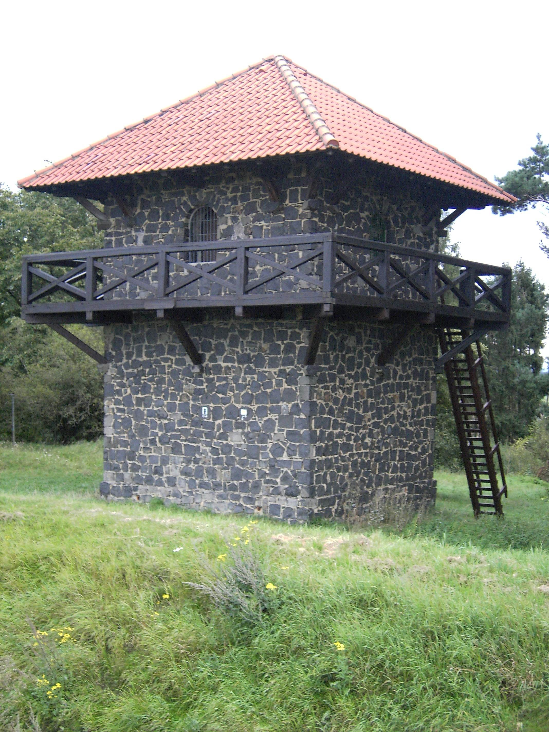 Roman watchtower at the Limes, No. WP 4/49. Replica from 1967. New research has shown that the Roman Limes watchtowers possessed one more floor, as can be seen in the replica near Idstein.